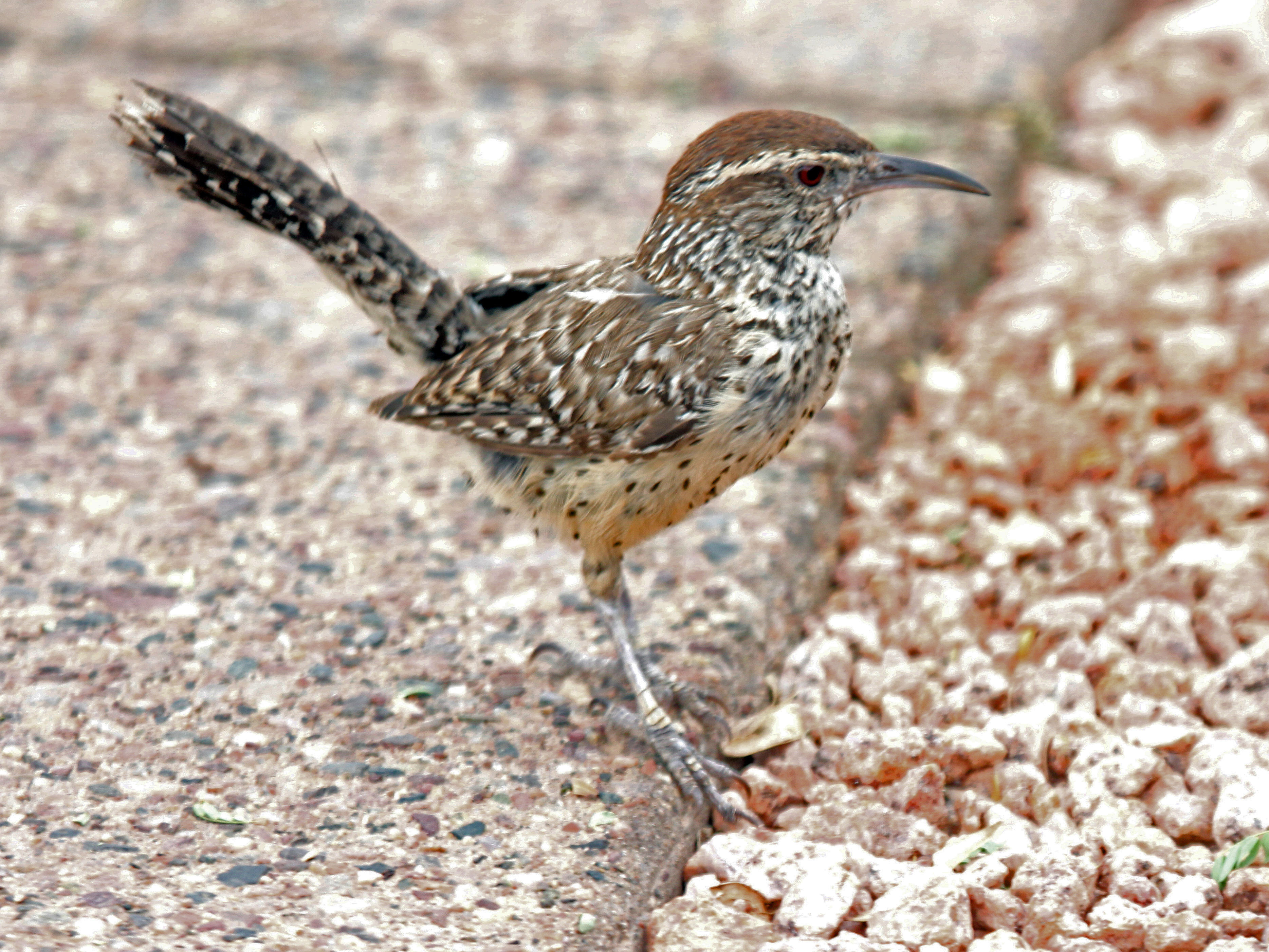 Juvenile Cactus Wren (Campylorhynchus brunneicapillus) - Desert Botantical Gardens in Phoenix, Arizona.